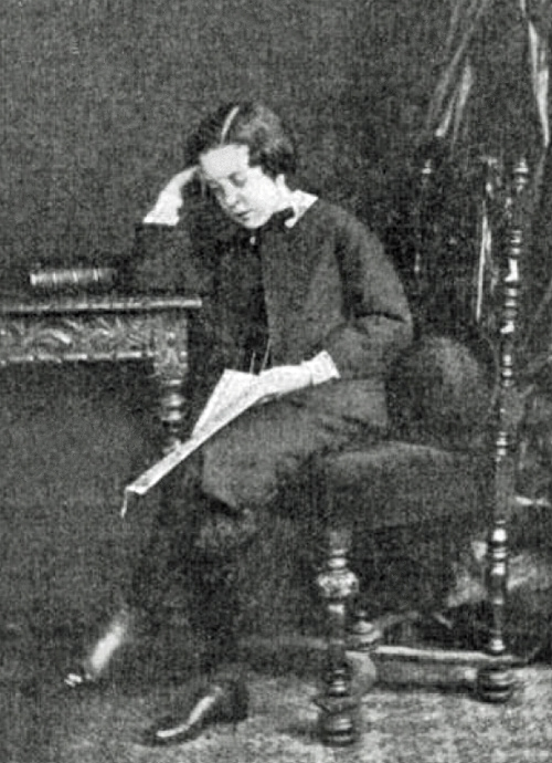 Charles Villiers Stanford, aged 12